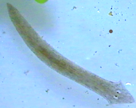 Picture of a planaria (Picture taken by a digital dissecting scope)(edited in Photoshop)